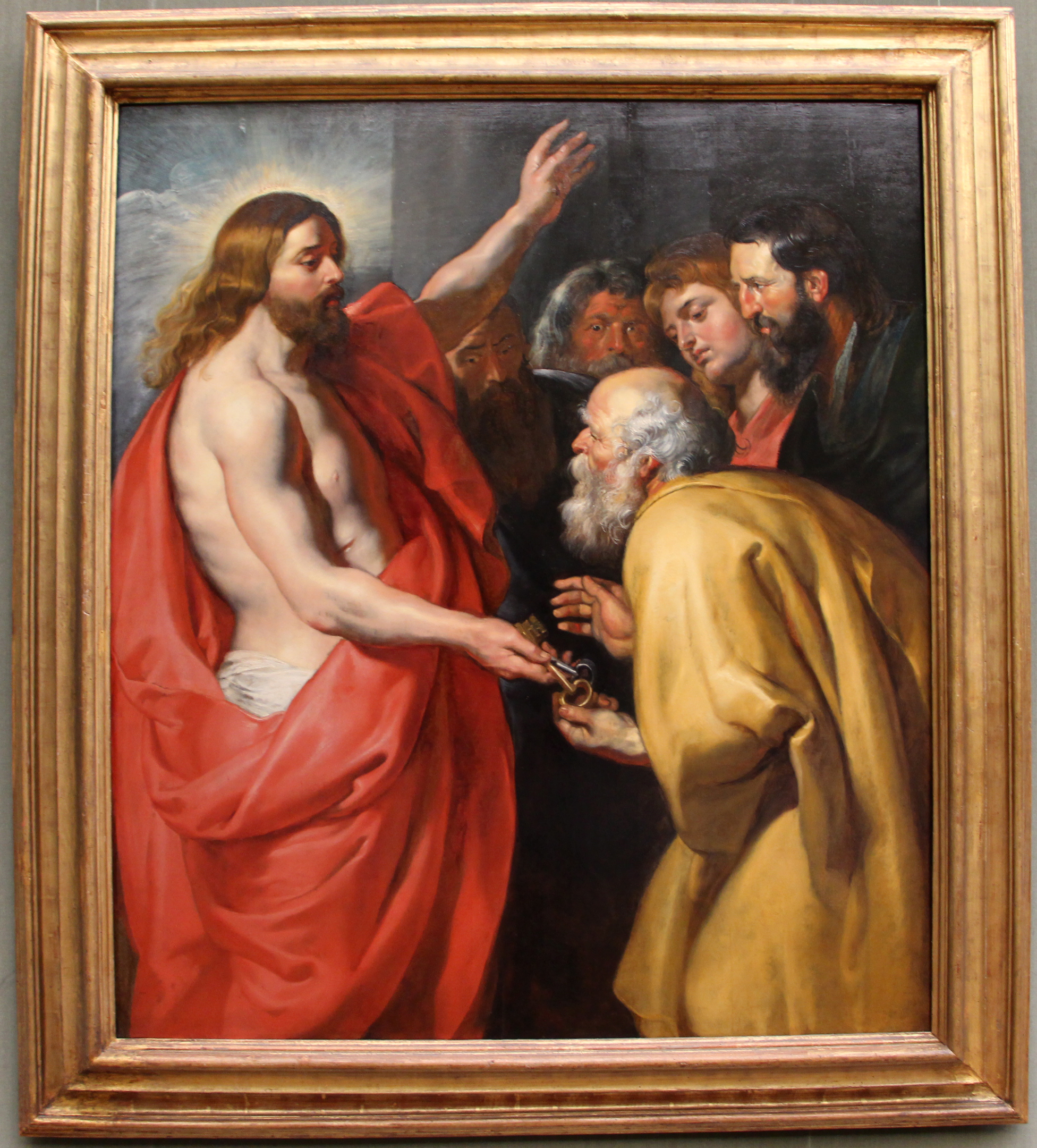 Dutch Golden Age paintings in the Gemäldegalerie, Berlin